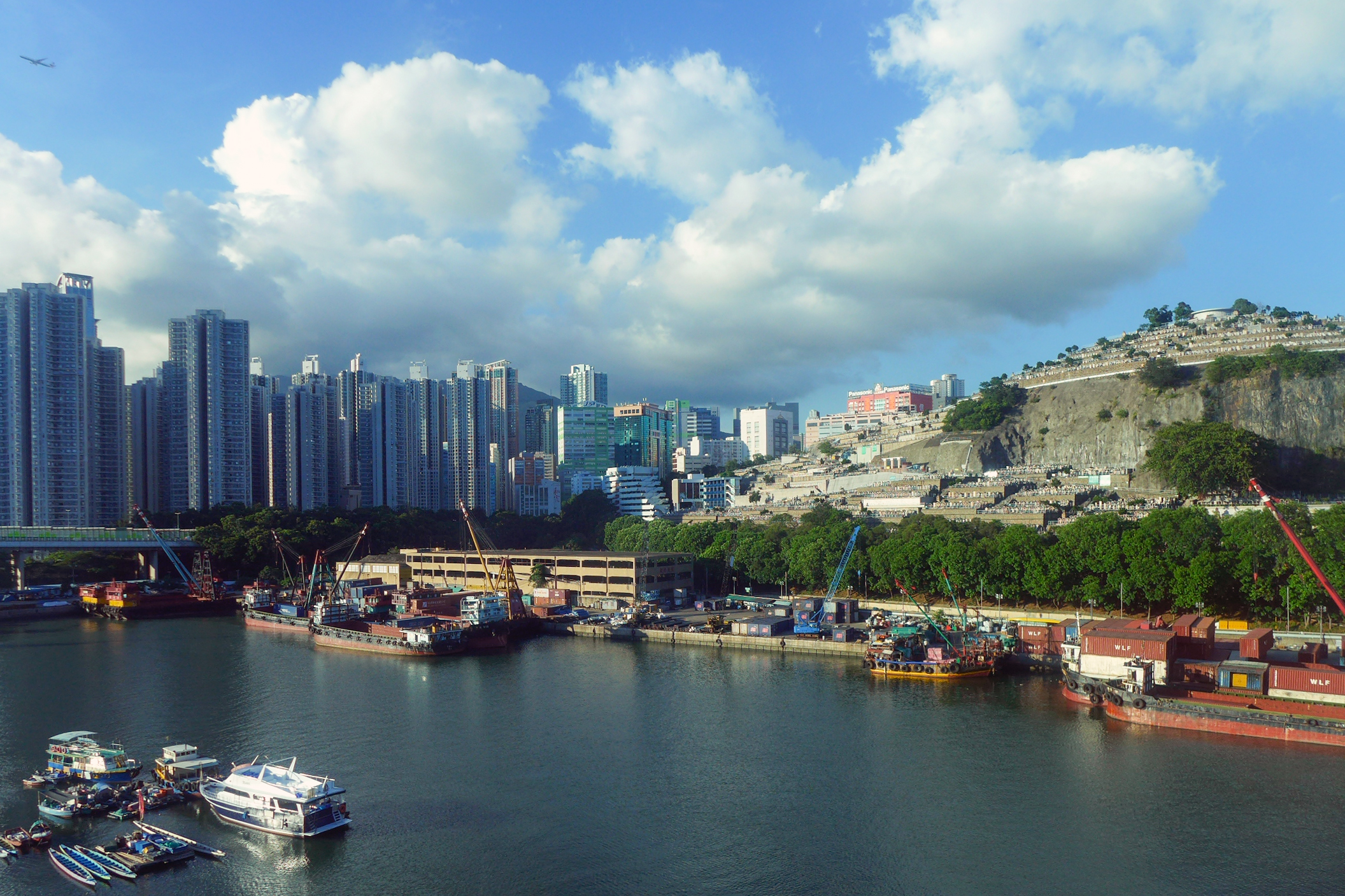 Tsuen Wan Typhoon Shelter